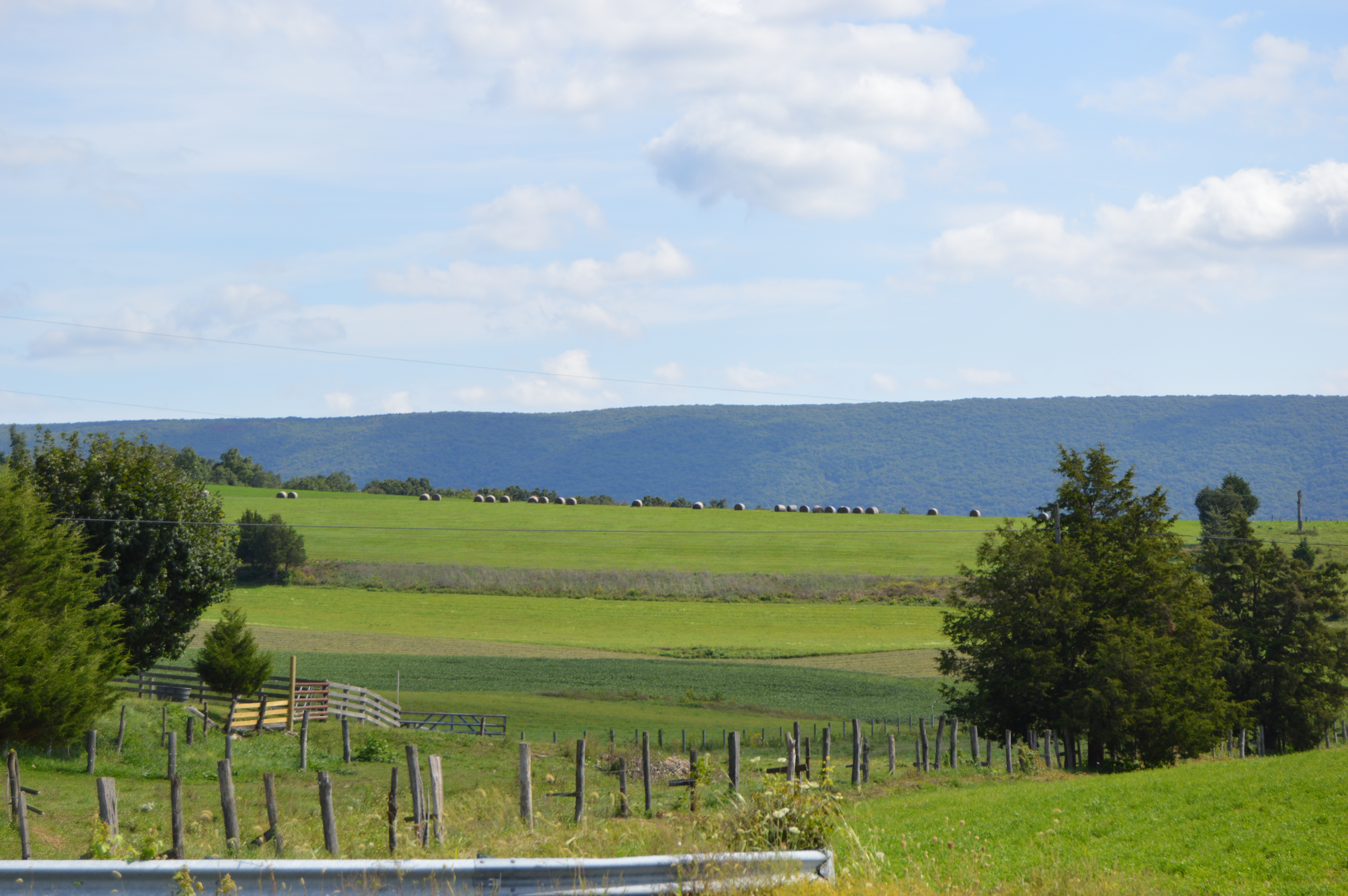 Looking southeast from the junction of Academia and Groninger Valley Roads in Beale Township, Juniata County, Pennsylvania, United States. Land in the foreground slopes down to Tuscarora Creek, while the wooded hillside in the background is an extension of Limestone Ridge, a line of hills in the middle of the county.